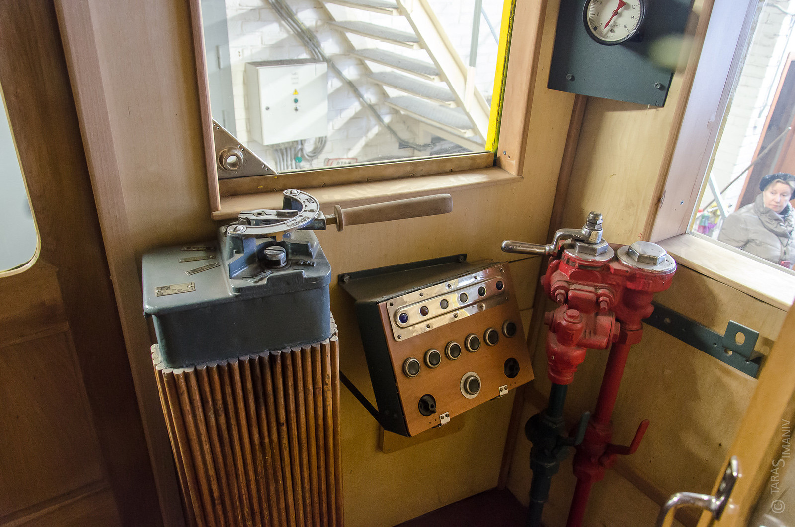 Driving cabin of subway car V4-156 (ex. BVG C1-104), depot Avtovo of Saint Petersburg Metro